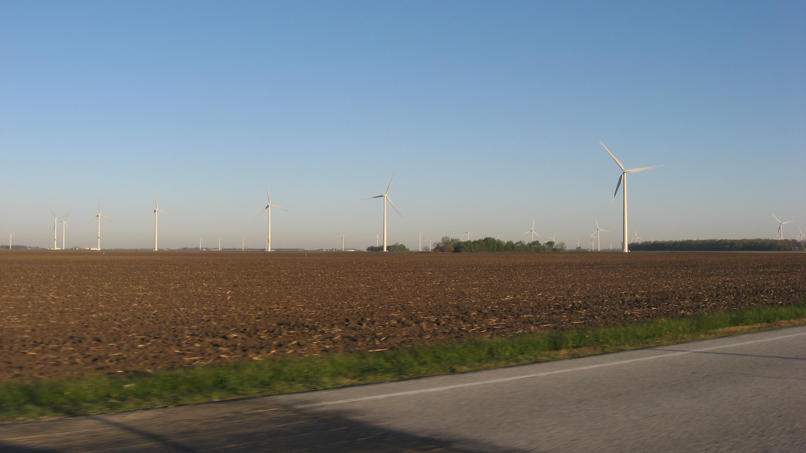 Turbines at the Meadow Lake Wind Farm, seen from the northbound lane of U.S. Route 231 between its intersections with State Road 18 and County Road 900S west of Brookston in Round Grove Township, White County, Indiana, United States.